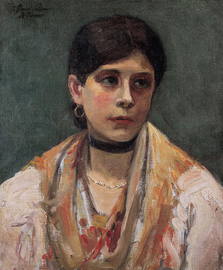 Ciociara, by Fujishima Takeji, Ishibashi Museum of Art, Kurume, Fukuoka, Japan